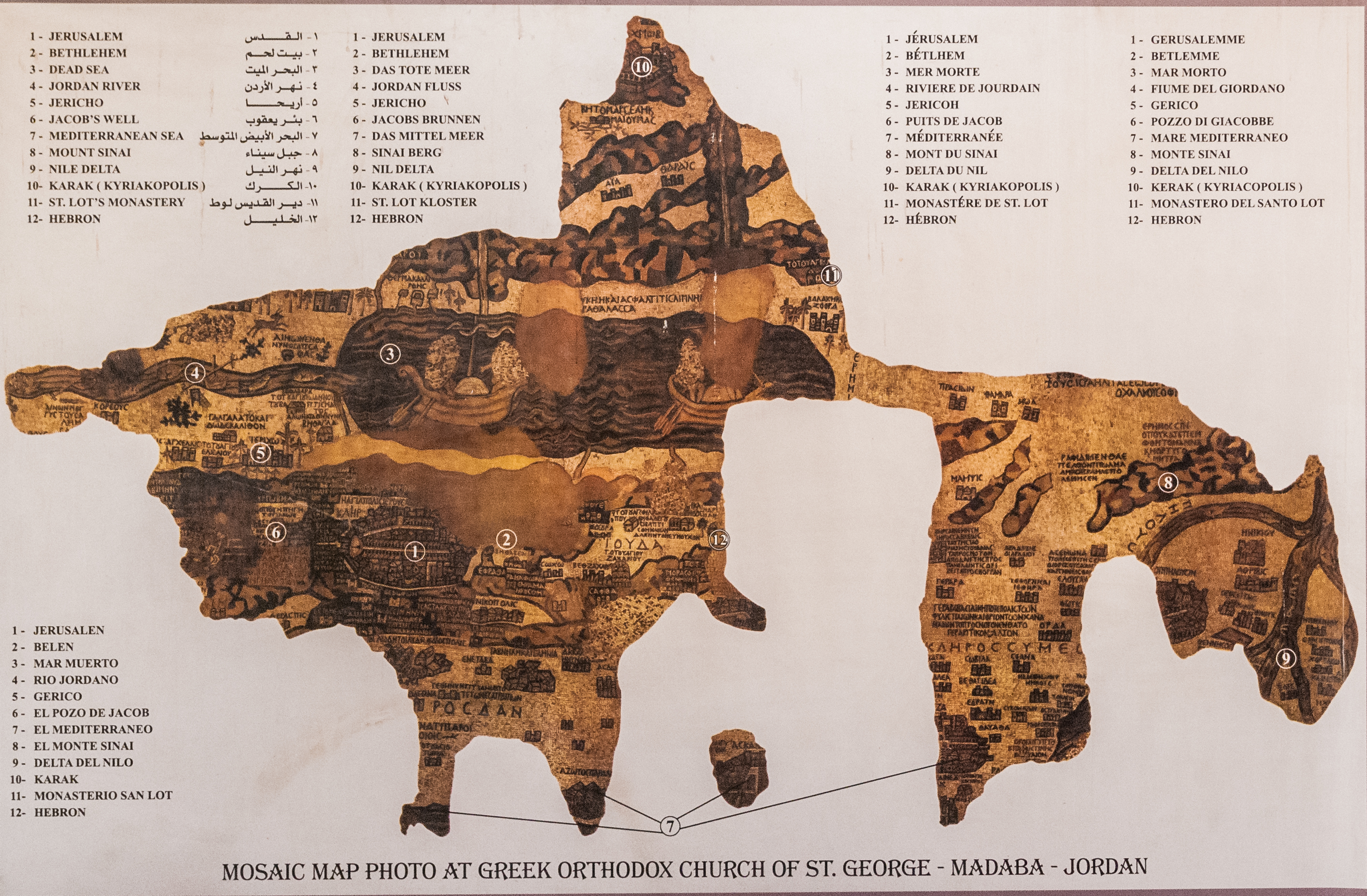 Reproduction of the Madaba Map discovered in Saint George Church in Madaba, Jordan